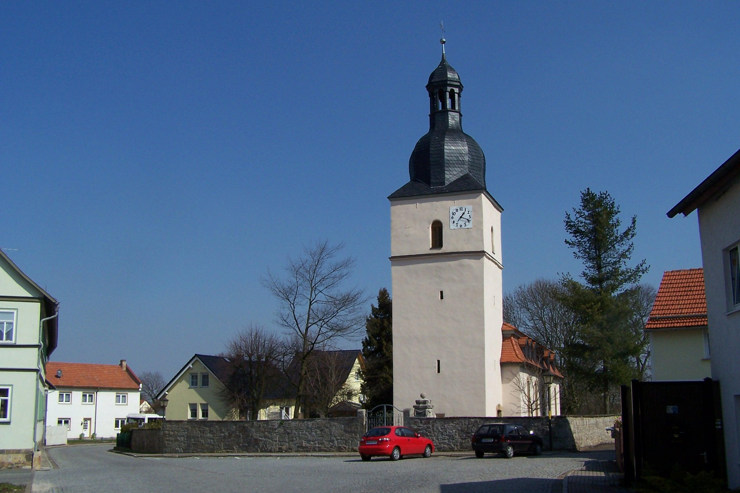 In Wolfsbehringen.